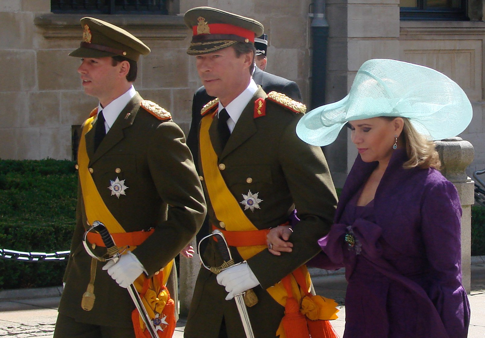 Henri and Maria Teresa, and their son Guillaume